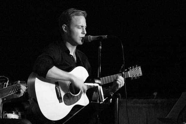 Jonny Blu live at Catalina Jazz Club in Hollywood, CA - November 2007